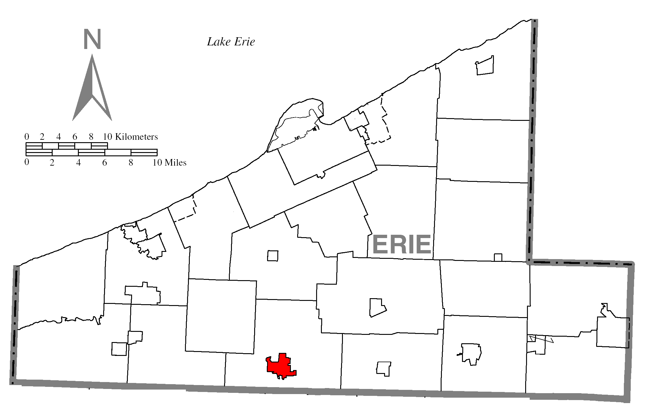 A map of Erie County showing Edinboro, Pennsylvania (alternate) highlighted on the map.